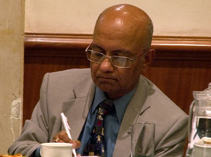 Kul Chandra Gautam at a Workshop organized by Nepal Institute of Policy Studies (NIPS) Kathmandu, 9 November 2011